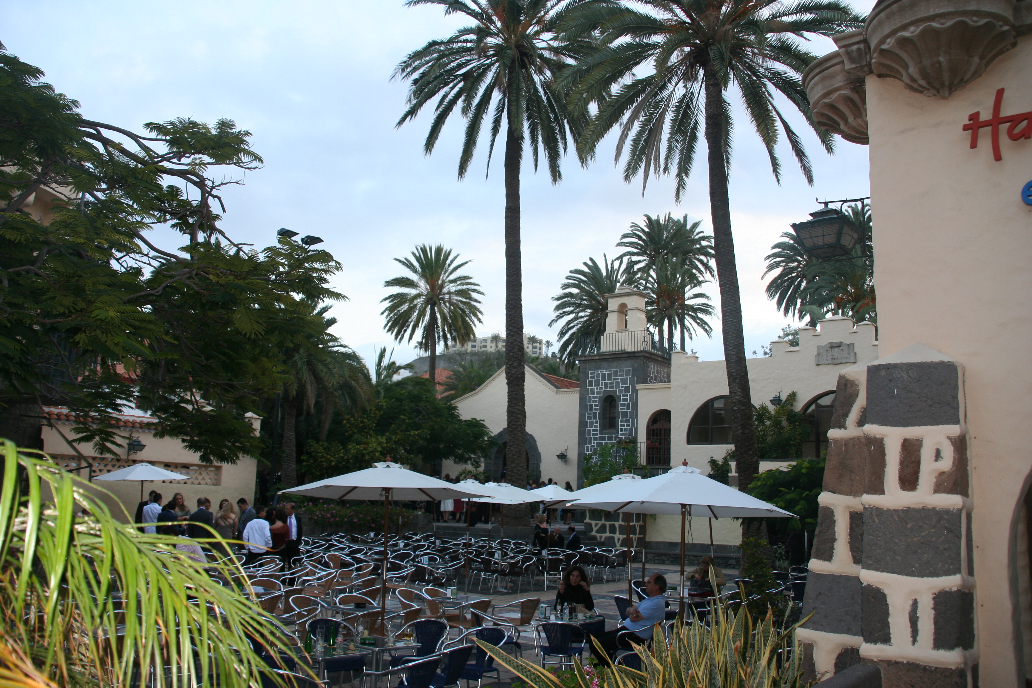 Canarian Village ("Pueblo canario"). Las Palmas de Gran Canaria, Canary Islands.